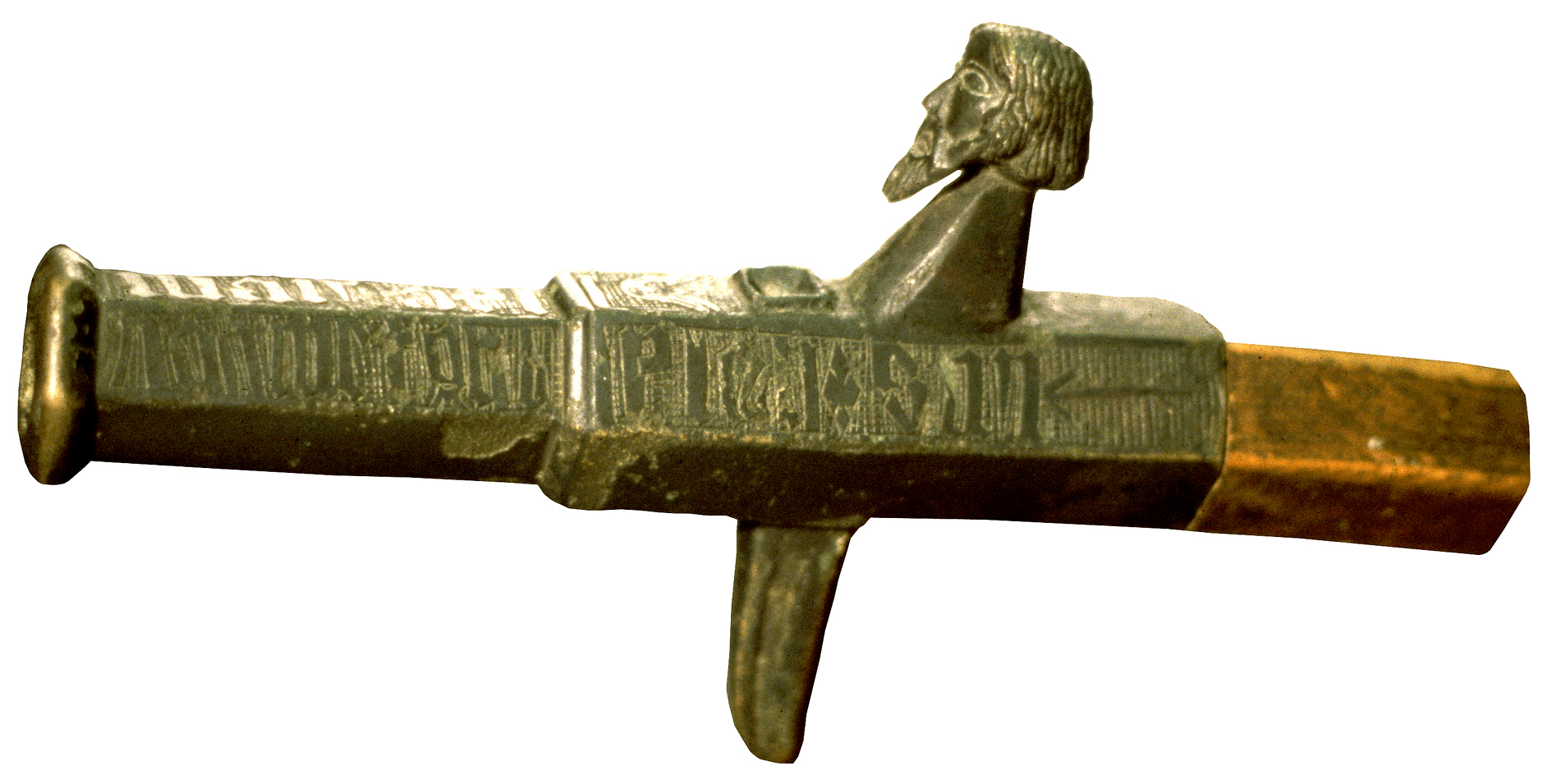 The so calleded Mörkö handgonne, from Sweden. A medieval hand cannon of casted bronze. Calibre 21 mm. Found by a fisherman in the Baltic Sea at the coast of Södermansland near Nynäs before 1828. Decorated with a fully plastic bearded mans head above the touch hole and a religous inscription in gothic minuscle MARIA several times.